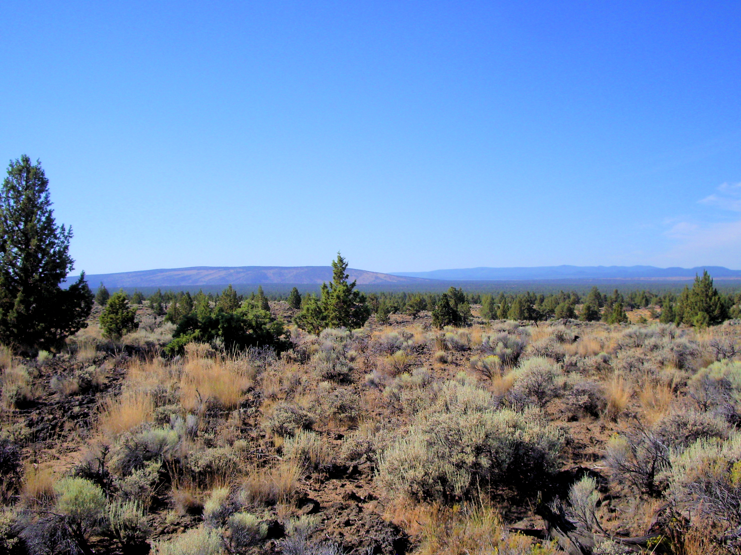 Oregon Badlands Wilderness from the NW area looking south at a typical mixture of sage, pine, tumulus, and ash-like soil.